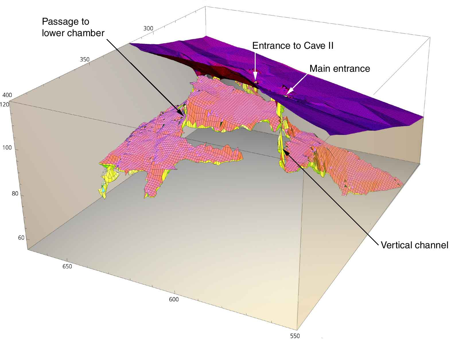 Gladysvale in 3-D view